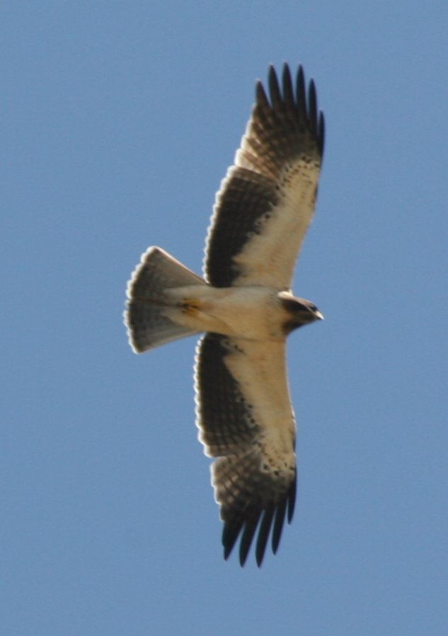 Booted Eagle. Photographed Riviersonderend, Western Cape, Republic of South Africa.